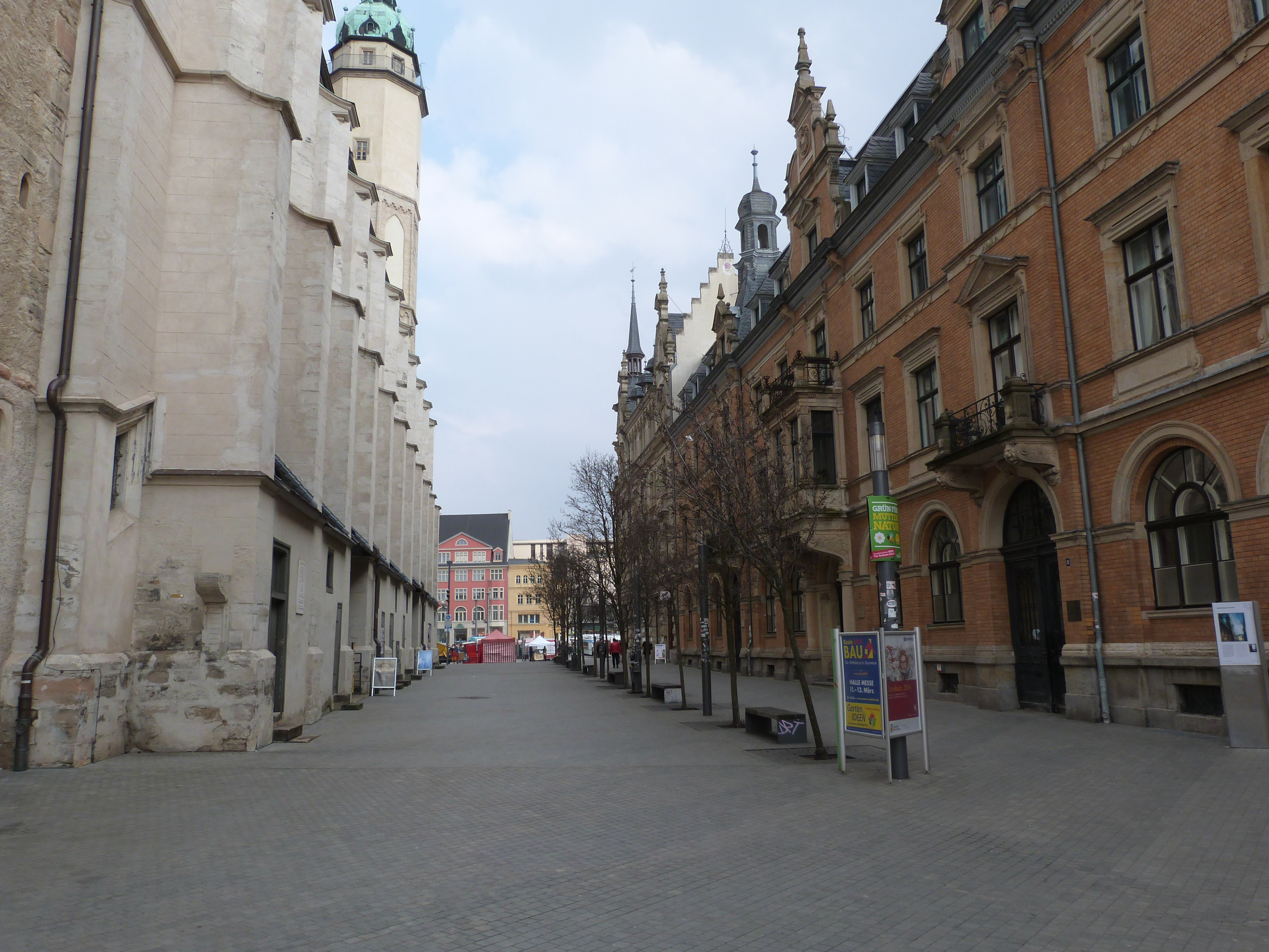 An der Marienkirche street in Halle/Saale (Saxony-Anhalt), view to the market